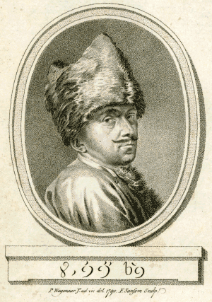 Portrait of Pieter van Woensel (1747-1808), physician and traveler